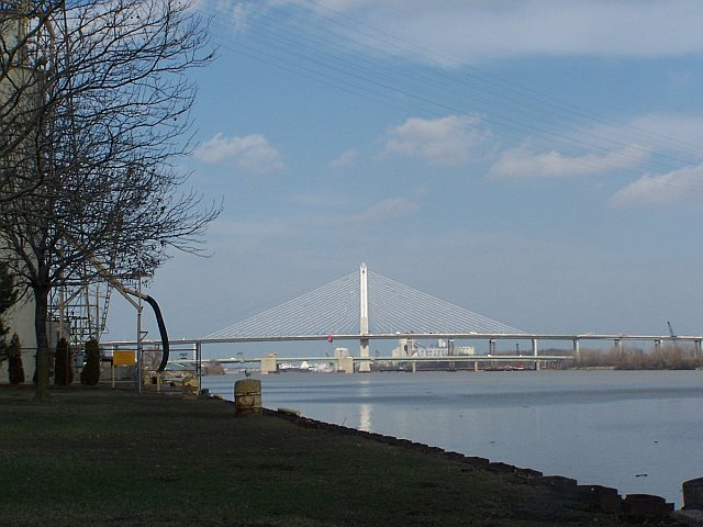 Photographer: wpktsfs Where: Toledo, Ohio Date: Saturday, March 24, 2007 What: Veterans Bridge, taken from afar.